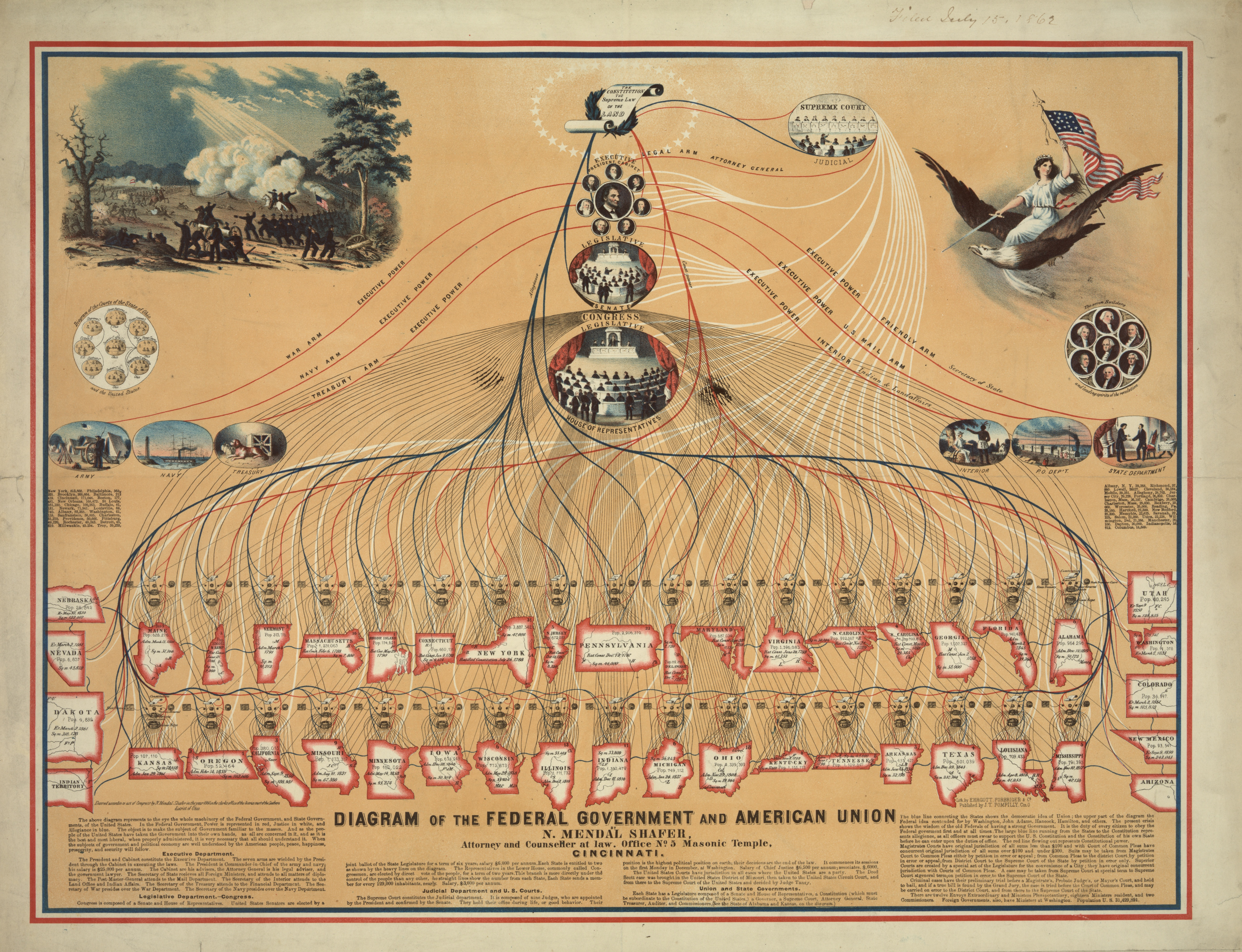 Print shows the outline of 34 states and 9 territories, a Civil War battle scene, and Liberty holding U.S. flag and sword riding on the back of an eagle, Lincoln and his cabinet (the secretaries linked to images of the Army, Navy, Treasury, Interior, P.O. Dept., and State Department) representing the "Executive" branch, the Senate and the House of Representatives representing the "Legislative" branch, and the Supreme Court representing the "Judicial" branch of the federal government. Also, cameo portraits of "The seven builders and leading spirits of the revolution."